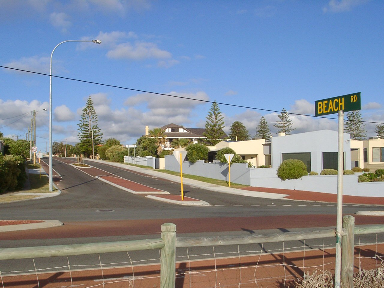 Intersection of Beach Road and West Coast Drive, looking ESE. Beach Road goes directly east from here. West Coast Drive is north-south.